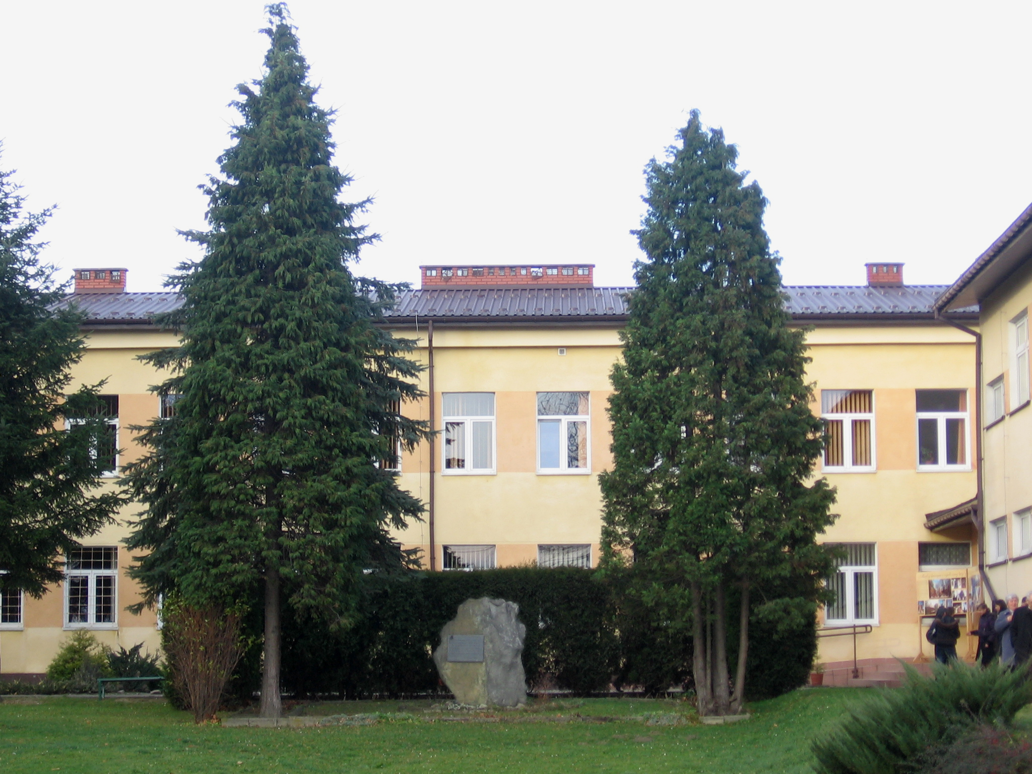 Memorial stone at the former Nazi camps in Szebnie